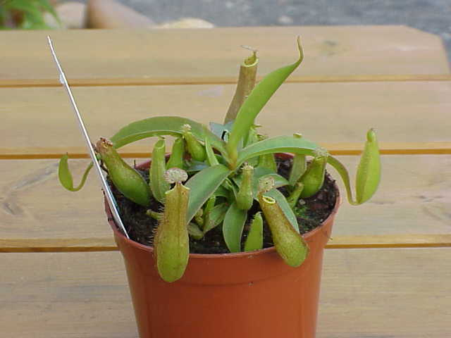 Species: Nepenthes gracilis Family: Nepenthaceae Image No. 2